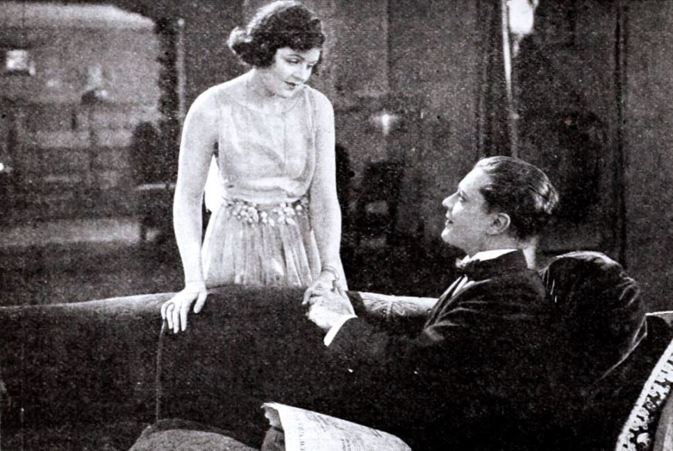 Still from the American drama film Evidence (1922) with Elaine Hammerstein, on page 74 of the April 29, 1922 Exhibitors Herald.